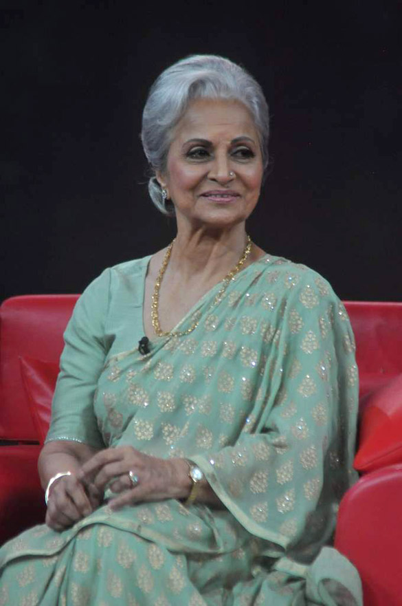 Waheeda Rehman at Raveena's chat show for NDTV